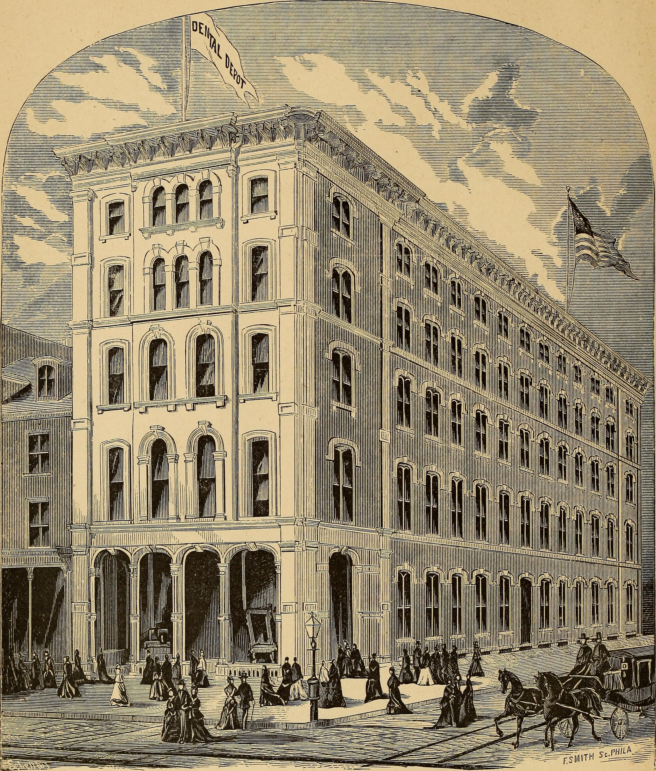 Title: Catalogue of dental materials, furniture, instruments, etc., for sale Year: 1876 (1870s) Authors: S.S. White Dental Manufacturing Company Subjects: Dental instruments and apparatus Dental Equipment Dental Instruments Dental Instruments Publisher: Philadelphia : White Text Appearing Before Image: arnish 295 White (S. S.) Dental Chair, The 242-243 Dental Engine, The 73-84 Whites (O. C.) Portable Head Rests 248 Whitneys Flasks .340 Vulcanizers 340 Wildman on Vulcanite 381 Williamss Gold 381 Willmotts Amalgam Carrier and Burnisher Combined ... . . . . 378 Wilsons Smooth Faced Pluggers ........... 136 Wine of Opium 232 408 INDEX. Page Wire, Gold, Silver, Platinum, etc. . . . 269 Nippers 288 Wheels, Large, for Lathes 326 « Small, for the S. S. White Dental Engine 93 Wood Mallets for Plate 332 Polishing Points . . .89 Tooth-Powder Boxes ............. 369 Wrench and Bed Plate 343 Z. Zigzag Extension Bracket • • • • 257 Zinc 332 Chloride of 233 Sulphate of . . . • • . . 233 Text Appearing After Image: DENTAL MANUFACTORY AND DEPOT, Chestnut Street, Corner of Twelfth Street, Philadelphia. BRANCHES: 767 and 769 Broadway New York. 13 and 16 Tremont Row Boston. 14 and 16 E. Madison Street Chicago. CATALOGUE OF DENTAL MATERIALS SPECIAL NOTICE. m^The MERCHANDISE MAIL permits the sending of pack-ages which do not weigh over four pounds. Goods that can be forwarded by this mail, when orderedat retail prices, accompanied with draft, or postal money-order, will be sent FREE OF POSTAGE to any part of the United States from the Philadelphia House oreither of our Branch Houses. With this opportunity, those ata distance from our depots, who have been unable to procureour manufactures from local dealers, can order directly,have their orders filled and packed with care, and receivethe goods by return mail. SAMUEL a WHITE.